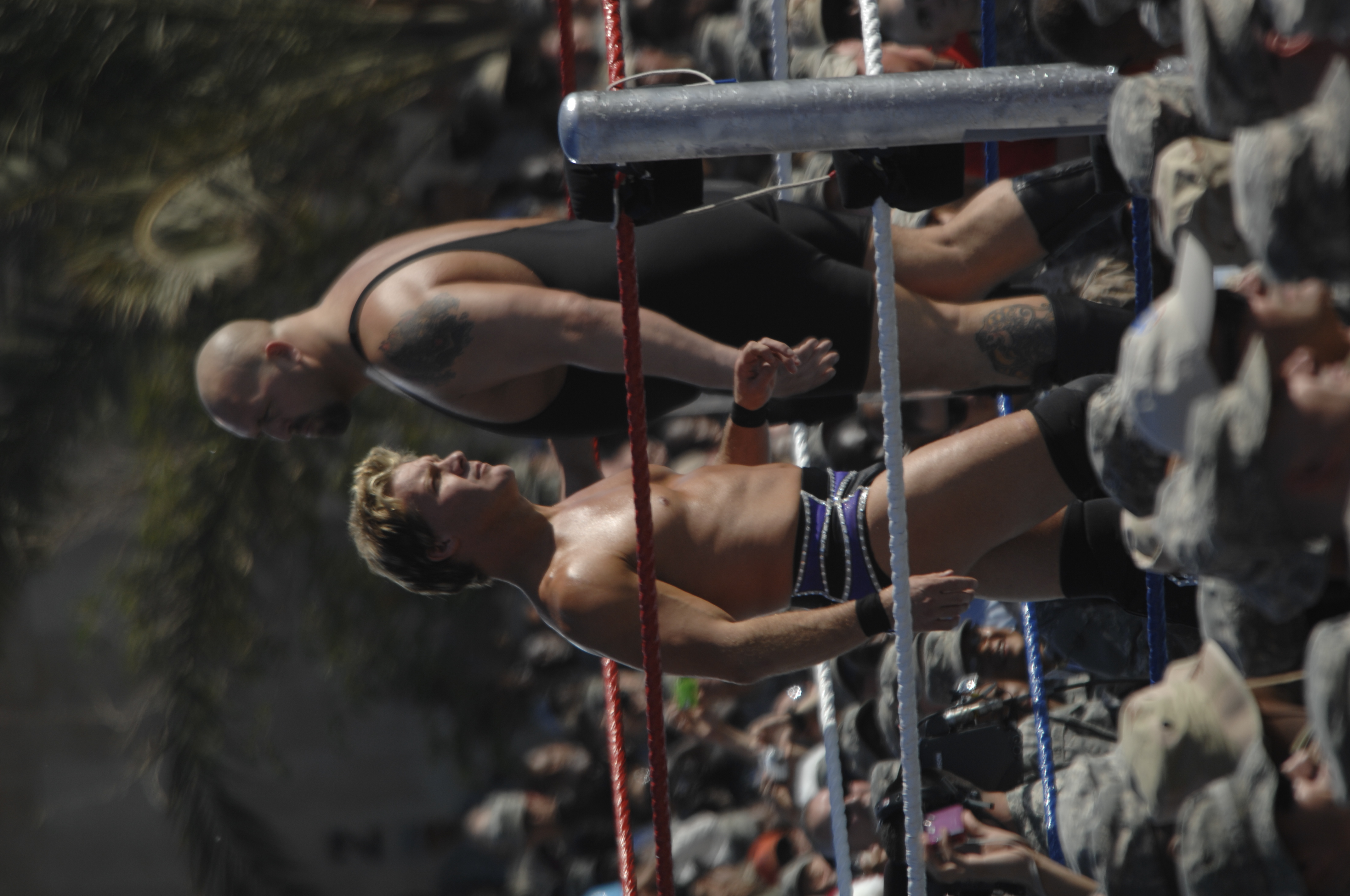 World Wrestling Entertainment wrestlers The Big Show and Chris Jericho wait for their match to start during the WWE show, sponsored by the USO at Camp Victory, Baghdad, Iraq, on Dec. 5.